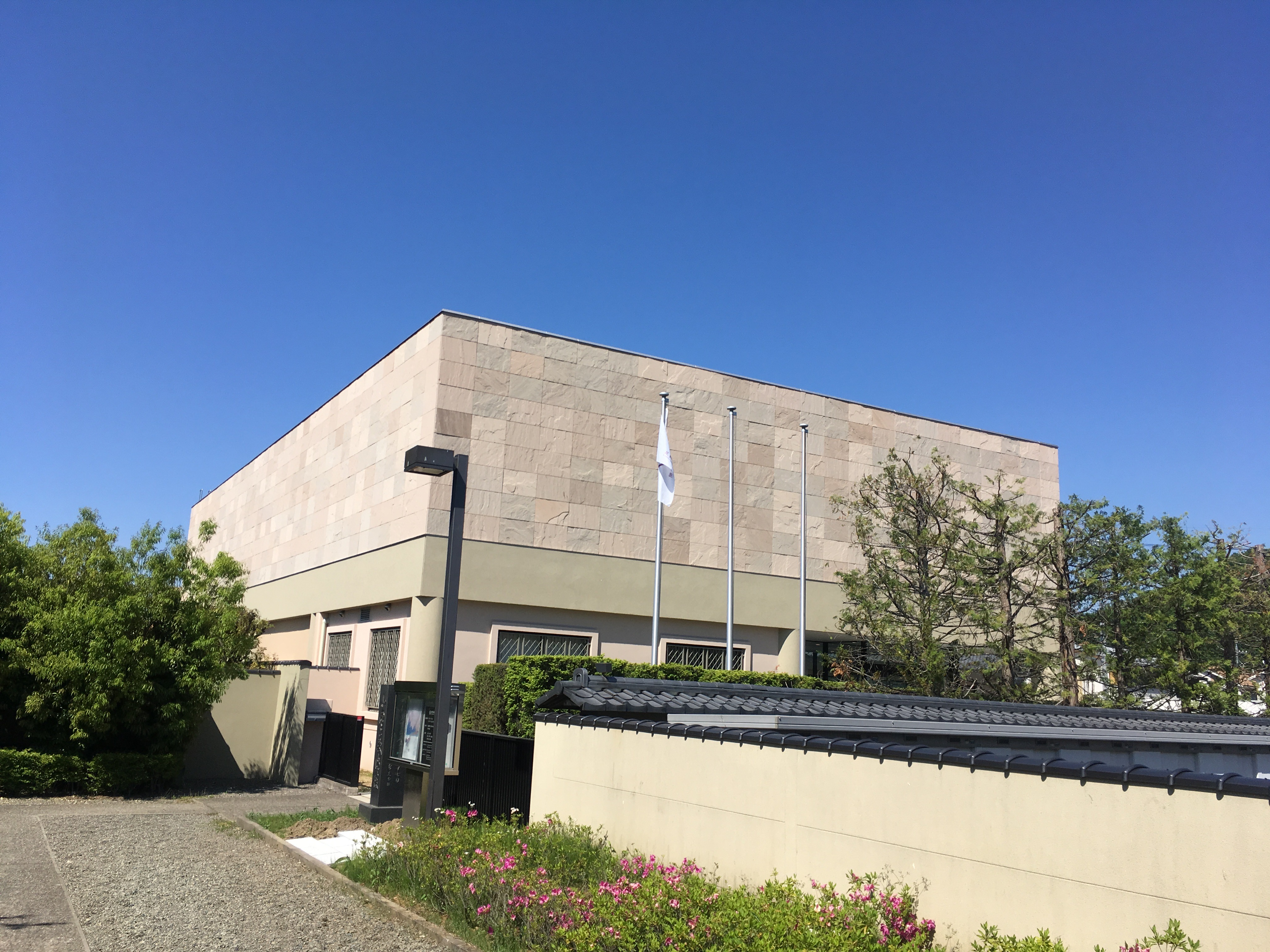 This is a photo of the Kitano Art Museum in the Wakahowatauchi district of Nagano City.